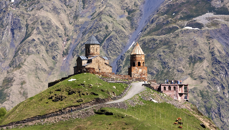 Khevi, Georgia — Gergeti Trinity Church